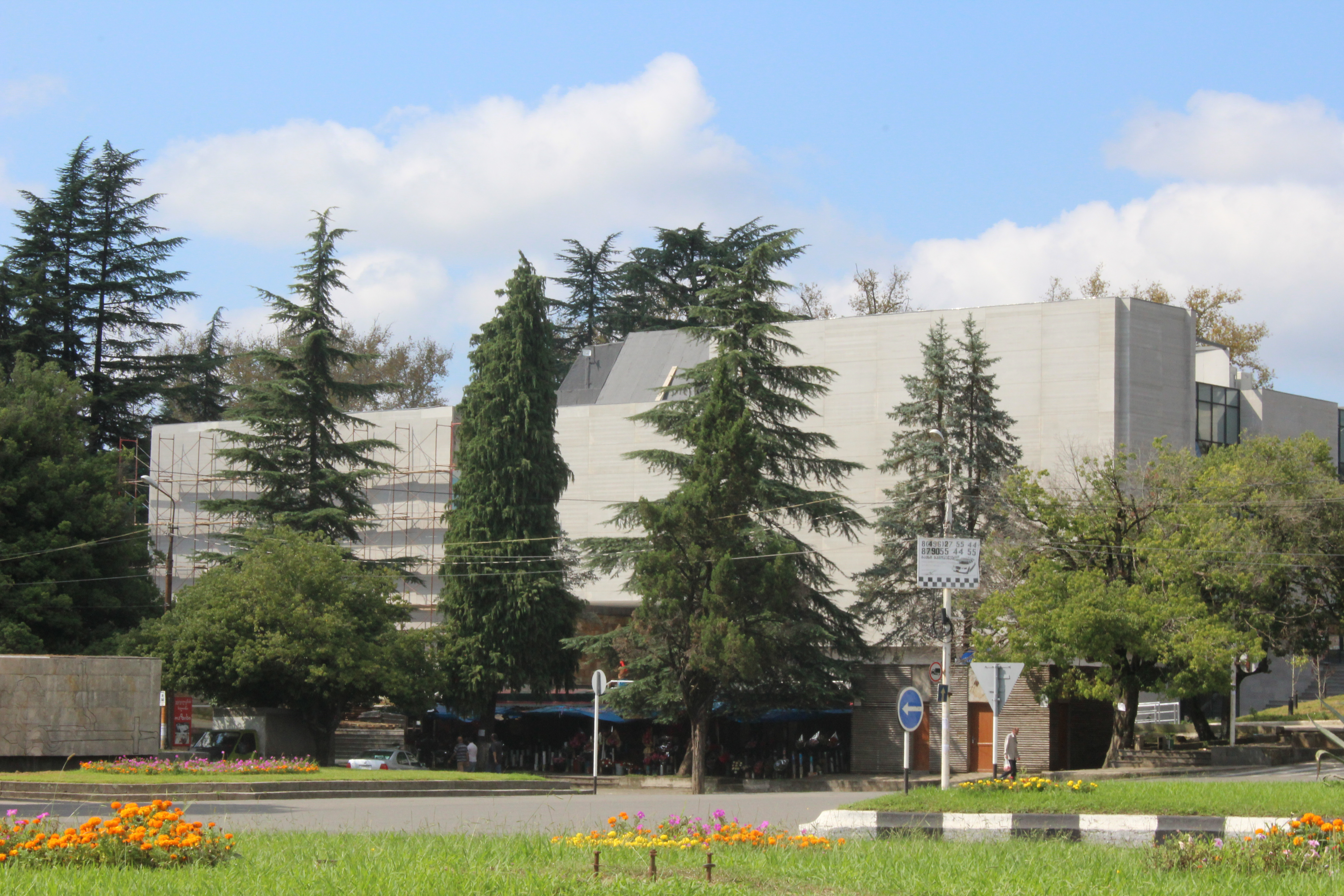 Ozurgeti History Museum and Folklore Center